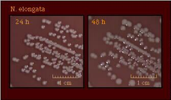 An image of the culture of Neisseria elongata at 24 and then 48 hours from the Centers for Disease Control